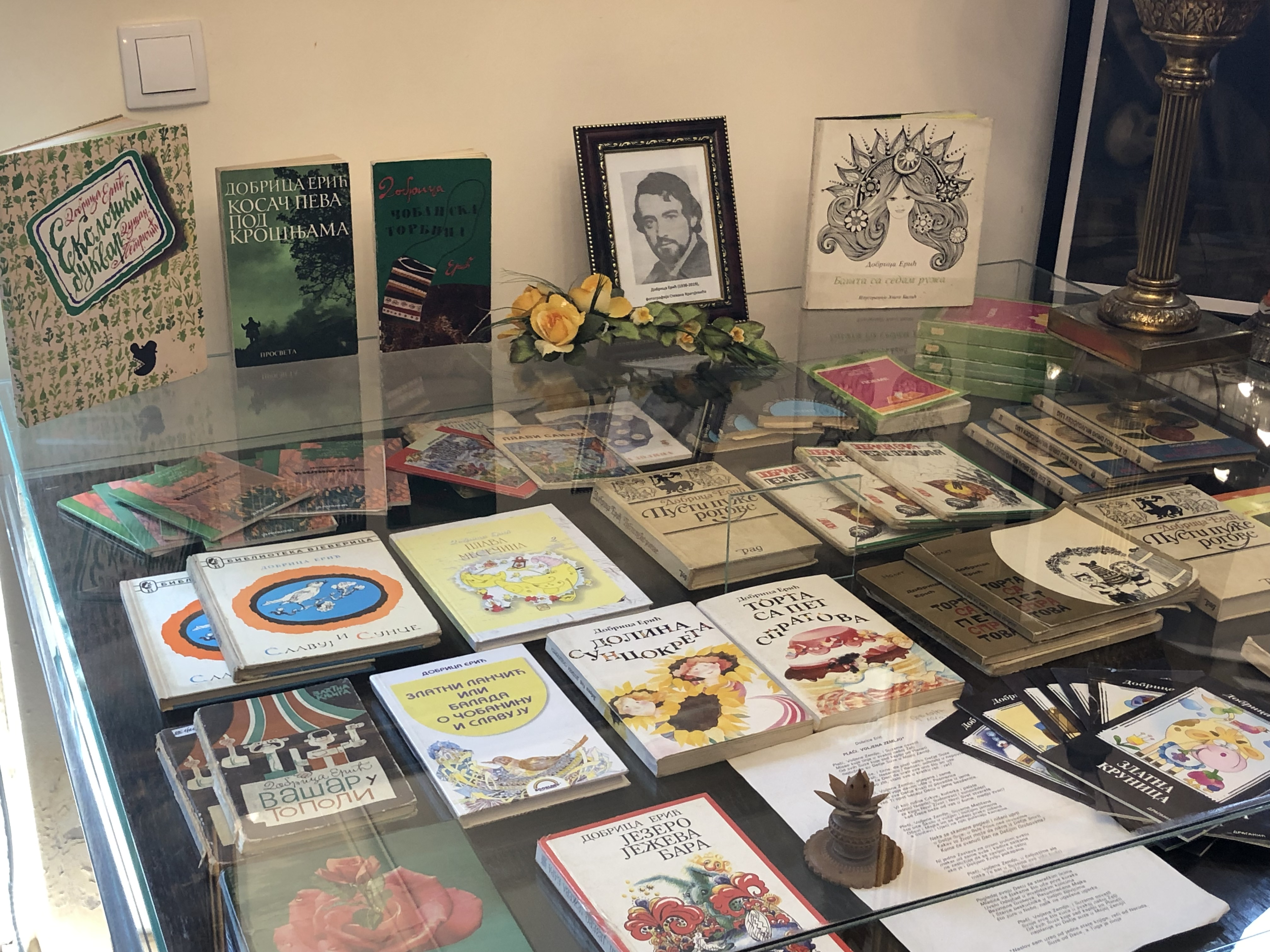 Collection of Dobrica Erić in the Museum of Serbian Literature in Belgrade, Serbia. Српски (ћирилица): Збирка Добрице Ерића у Музеју српске књижевности у Београду.